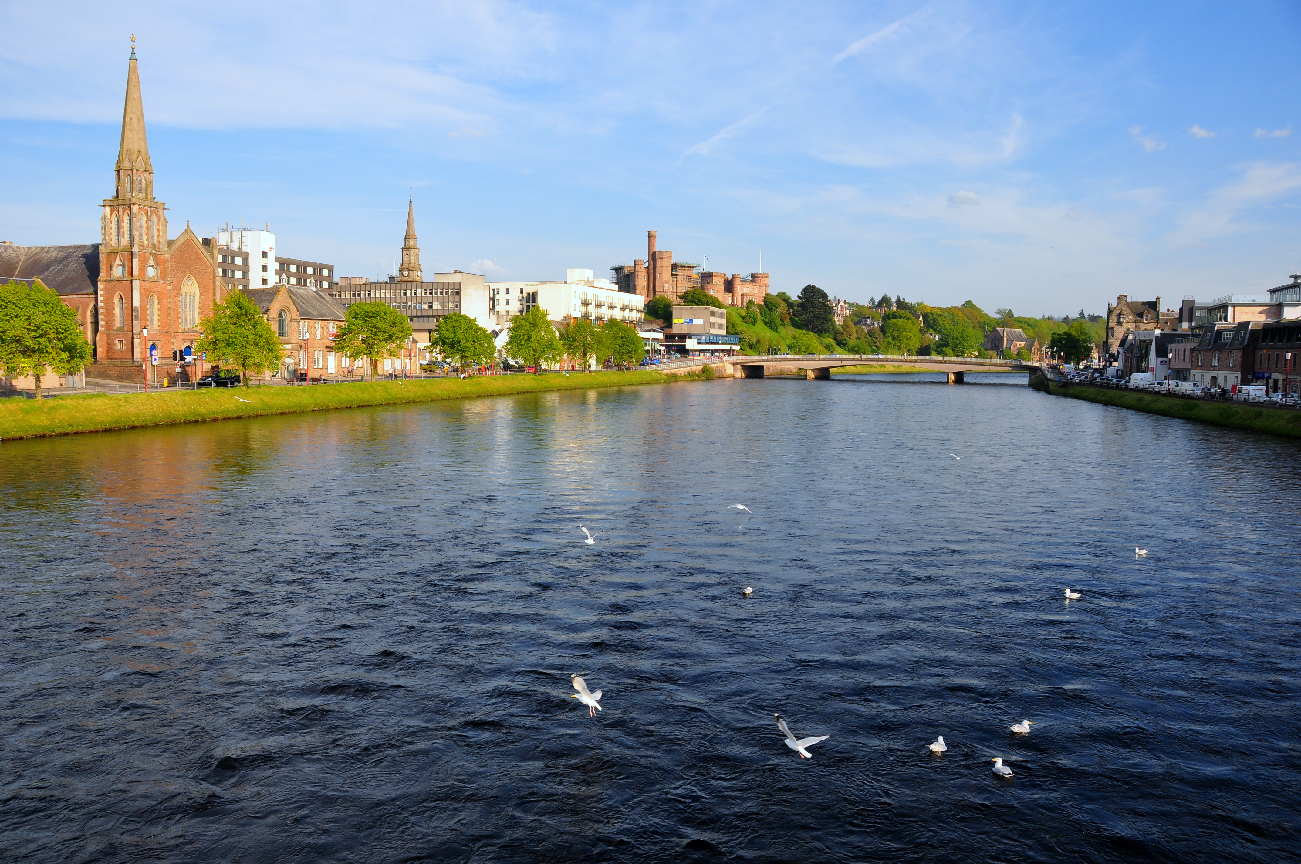 The River Ness as seen from Inverness City center May 23, 2012